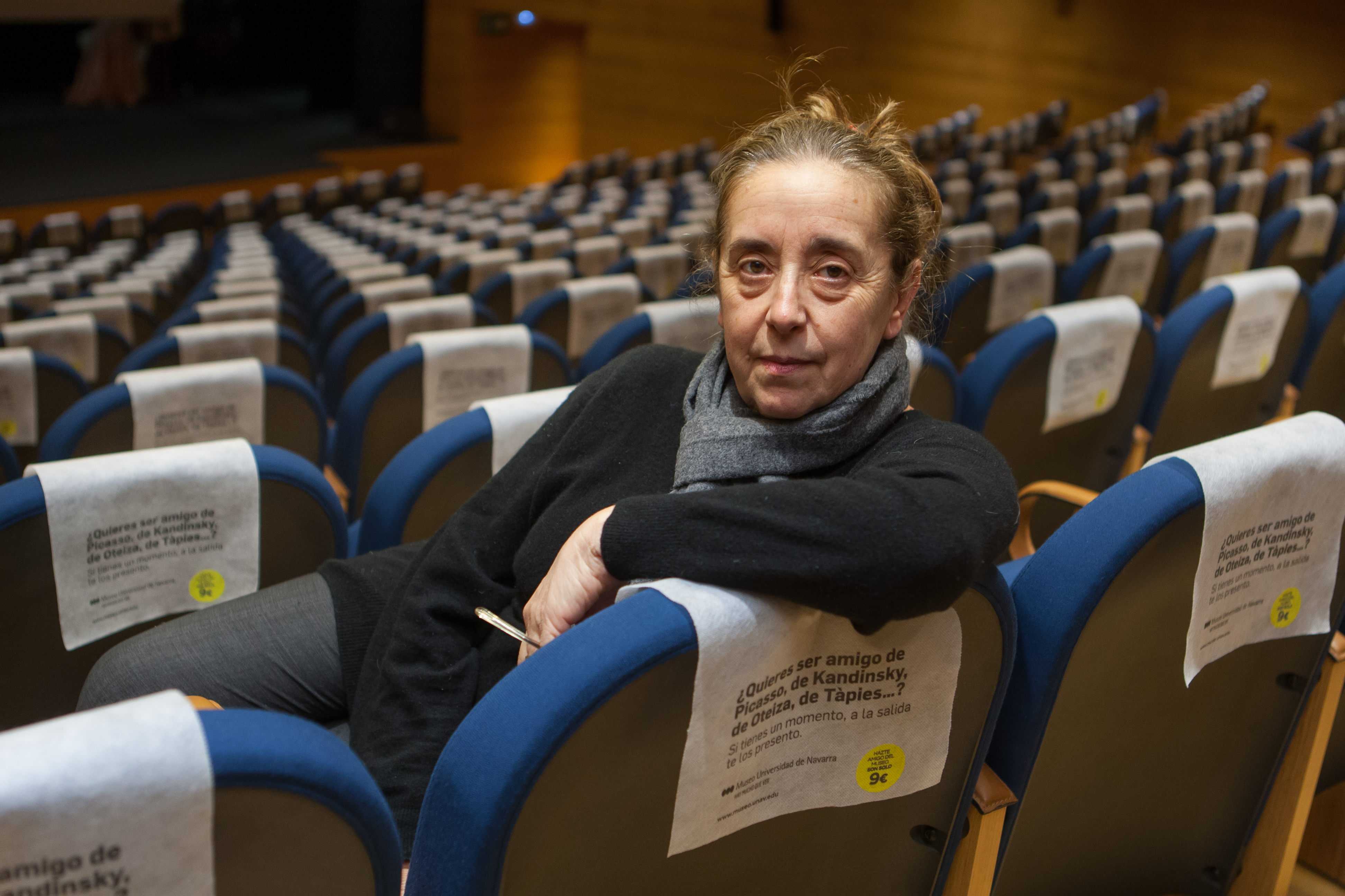 mmena